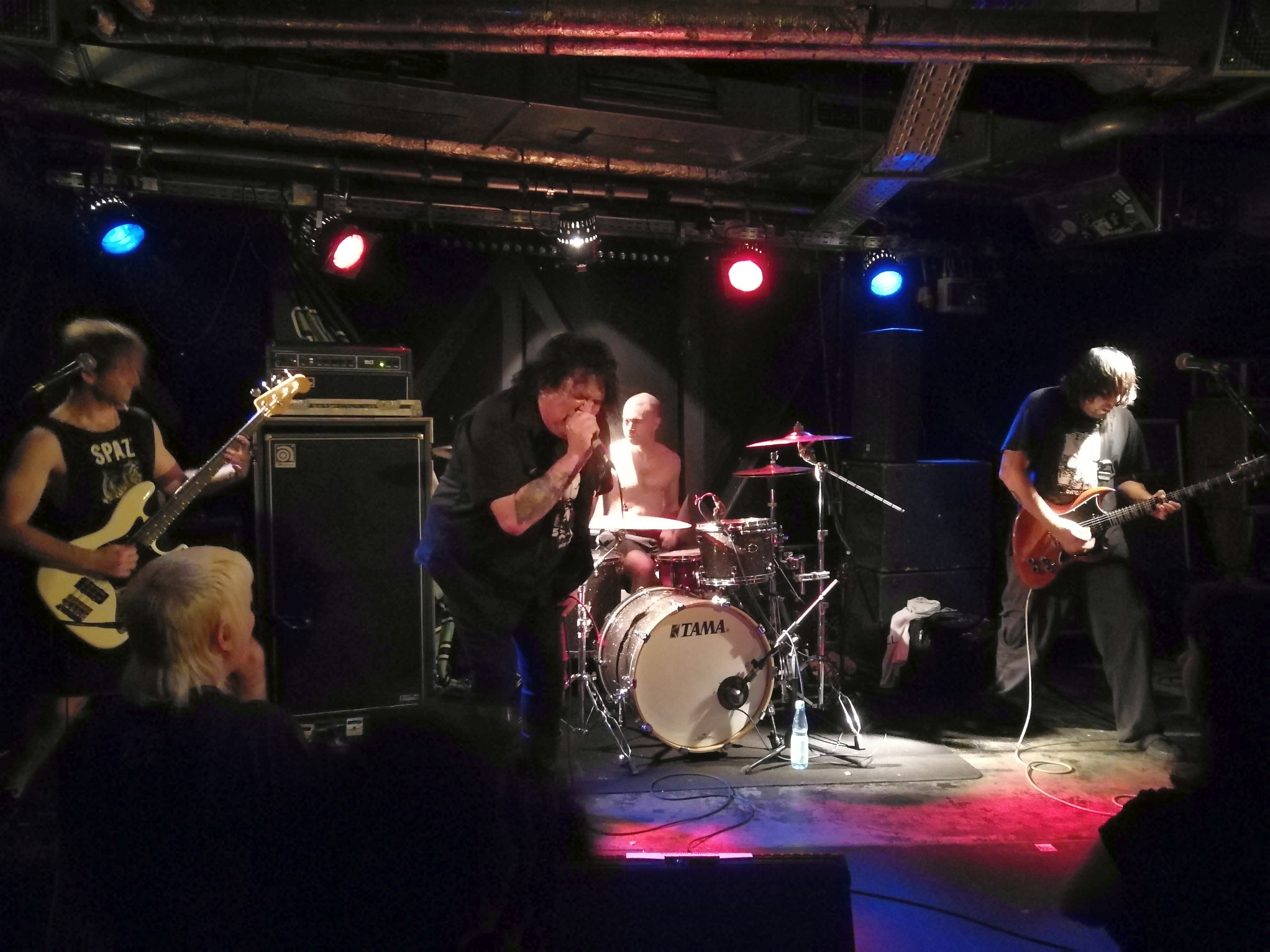 Battalion of Saints, Hamburg/Germany, Hafenklang, 22.07.2018.